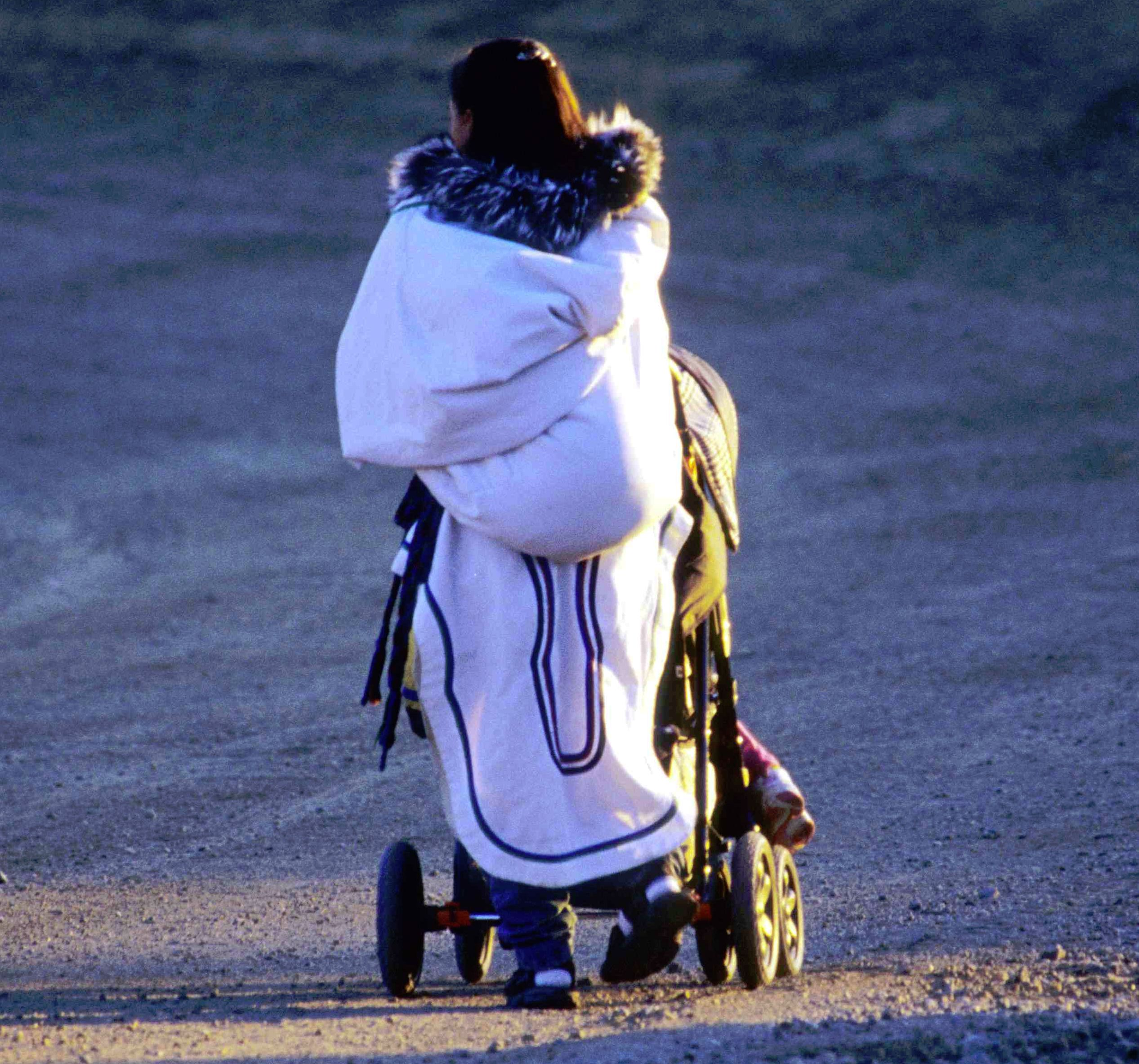 Baby carriage (Cape Dorset, Nunavut Territory, Canada). Cutted image.